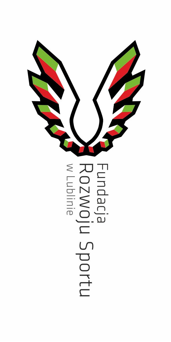 FRS logo